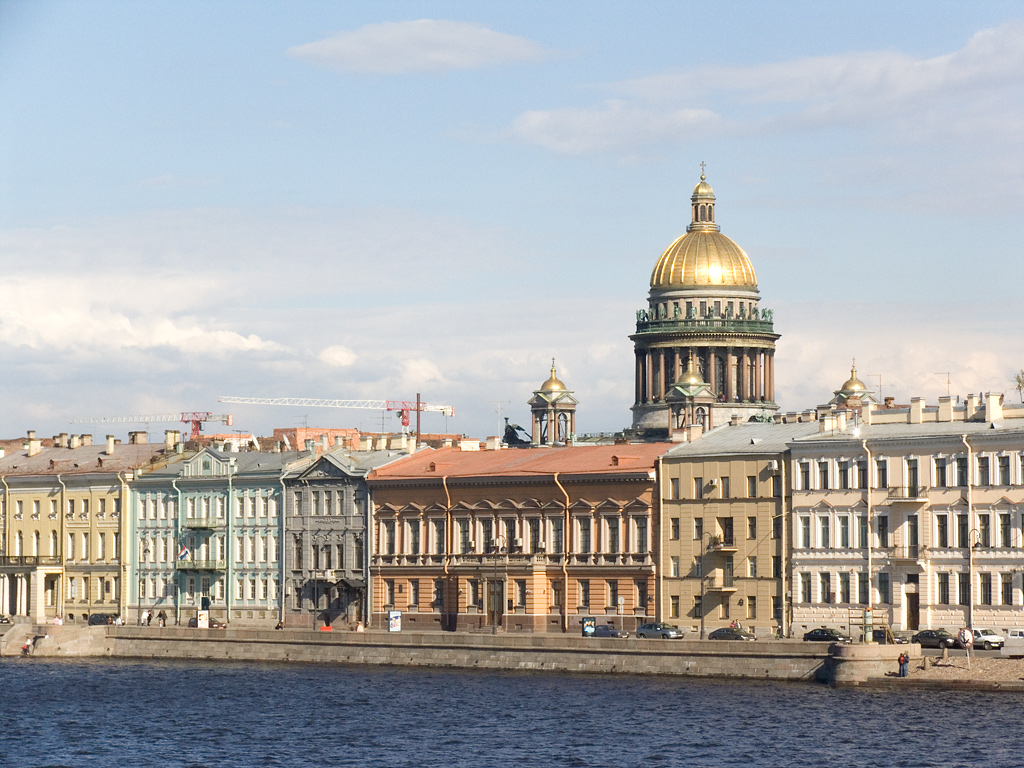 Saint Petersburg (Russia), English Embankment.